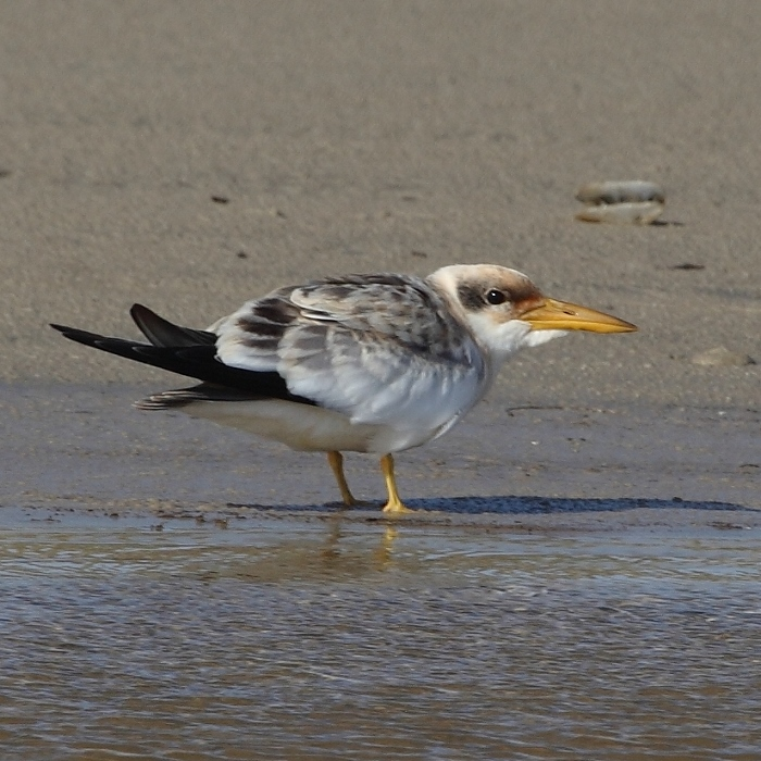 Large-billed Tern (Young) at Tavares - RS - Brazil